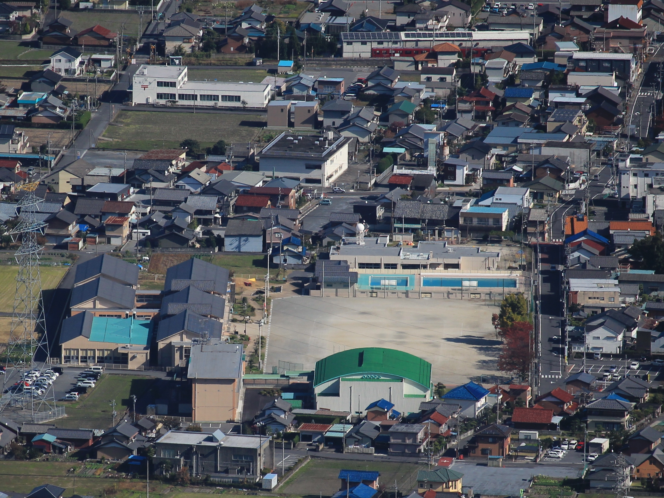 Onchi elementary school seen from Mount Ikeda, in Ōno, Gifu prefecture, Japan.